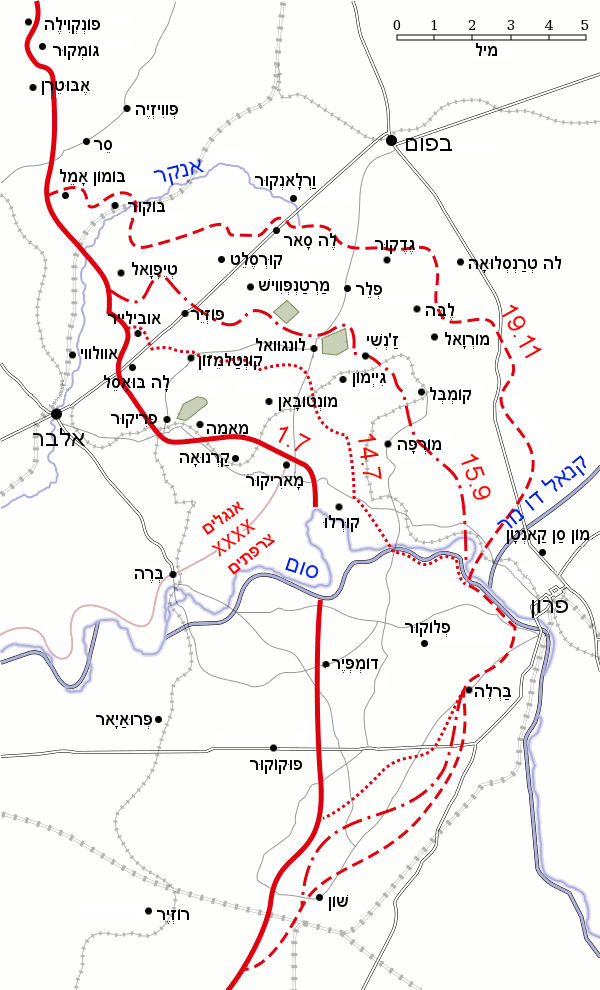 Battle of the Somme 1916